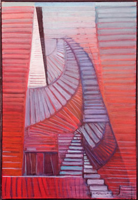 Marrti Mertanen: The Stairs of Life, oil on canvas 1985-86.